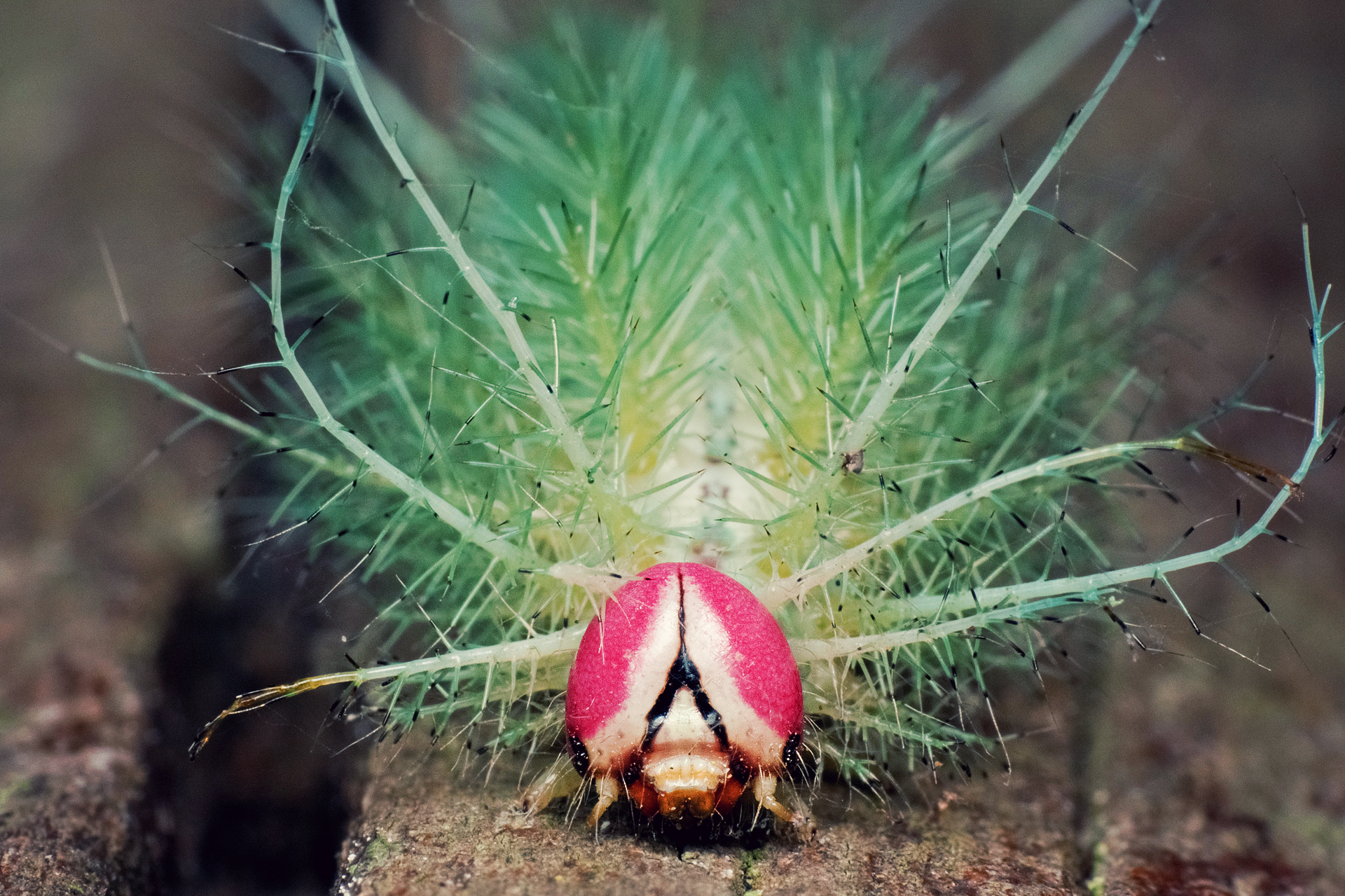 Stinging caterpillar (Saturniidae) in Intervales State Park, Brazil.